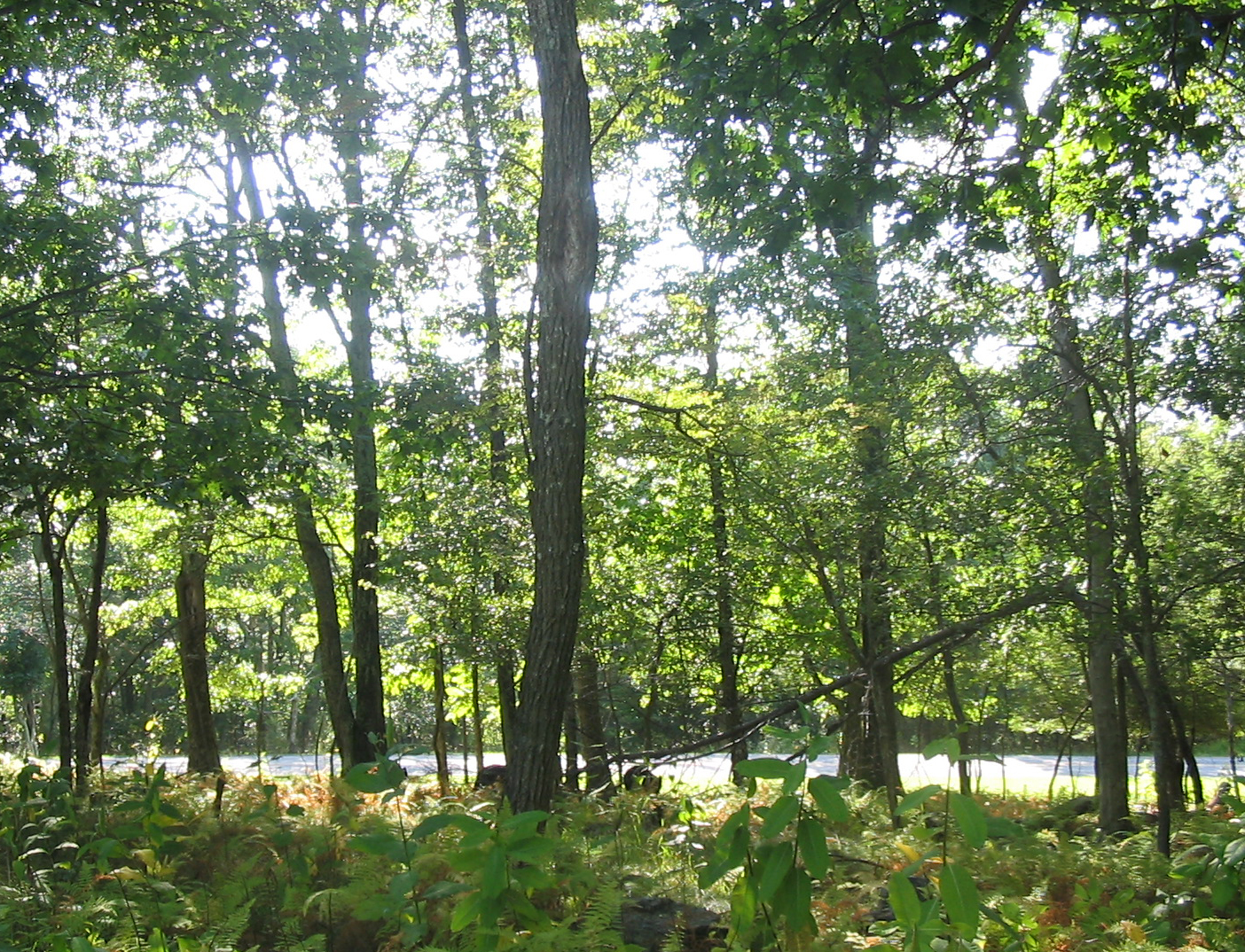 Cropped version of an image taken by me for Wikipedia